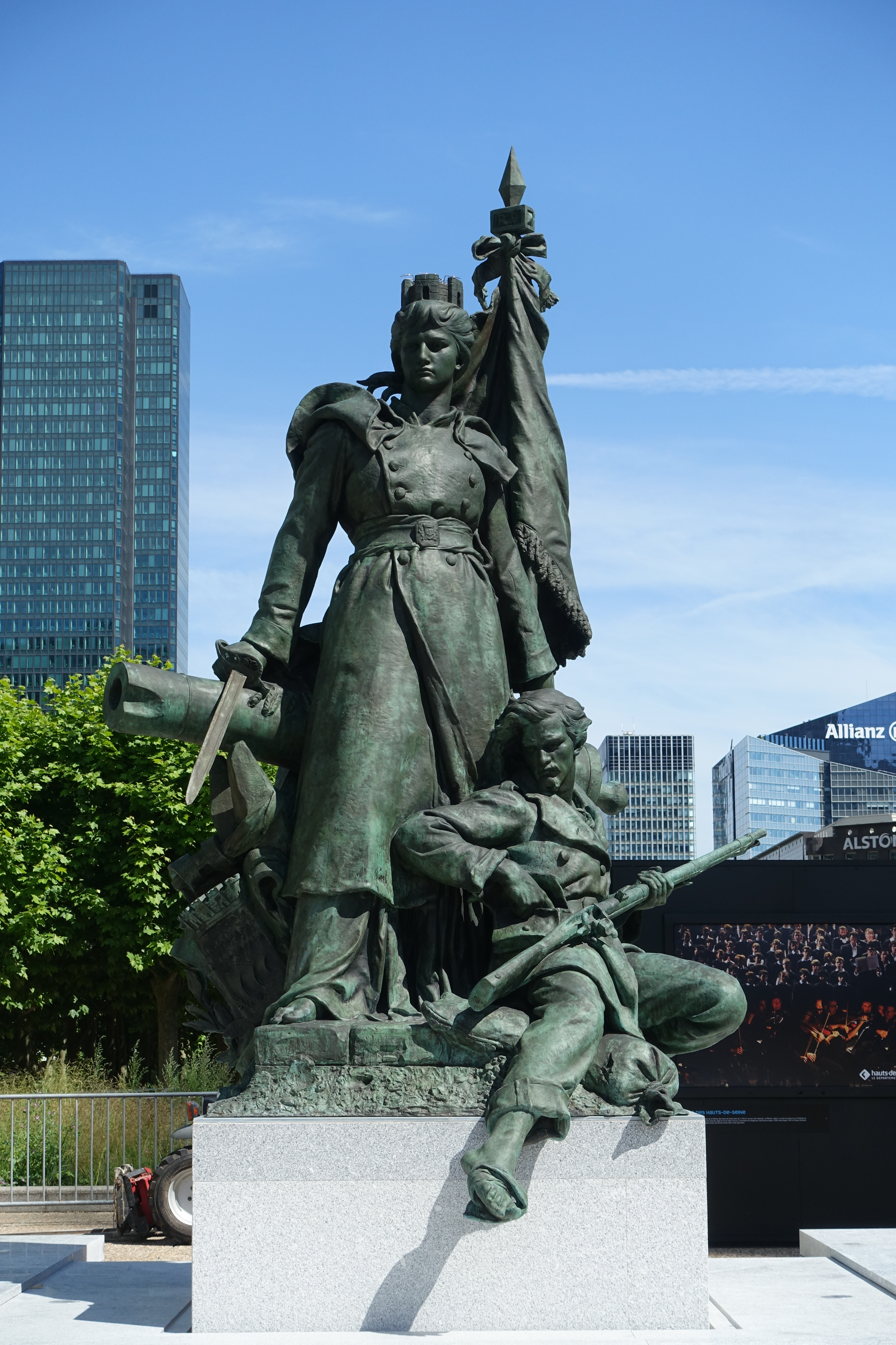 La Défense, a major business district just west of the city limits of Paris. It is part of the Paris Metropolitan Area in the Île-de-France region, located in the department Hauts-de-Seine spread across the commune of Courbevoie, as well as parts of Puteaux and Nanterre.